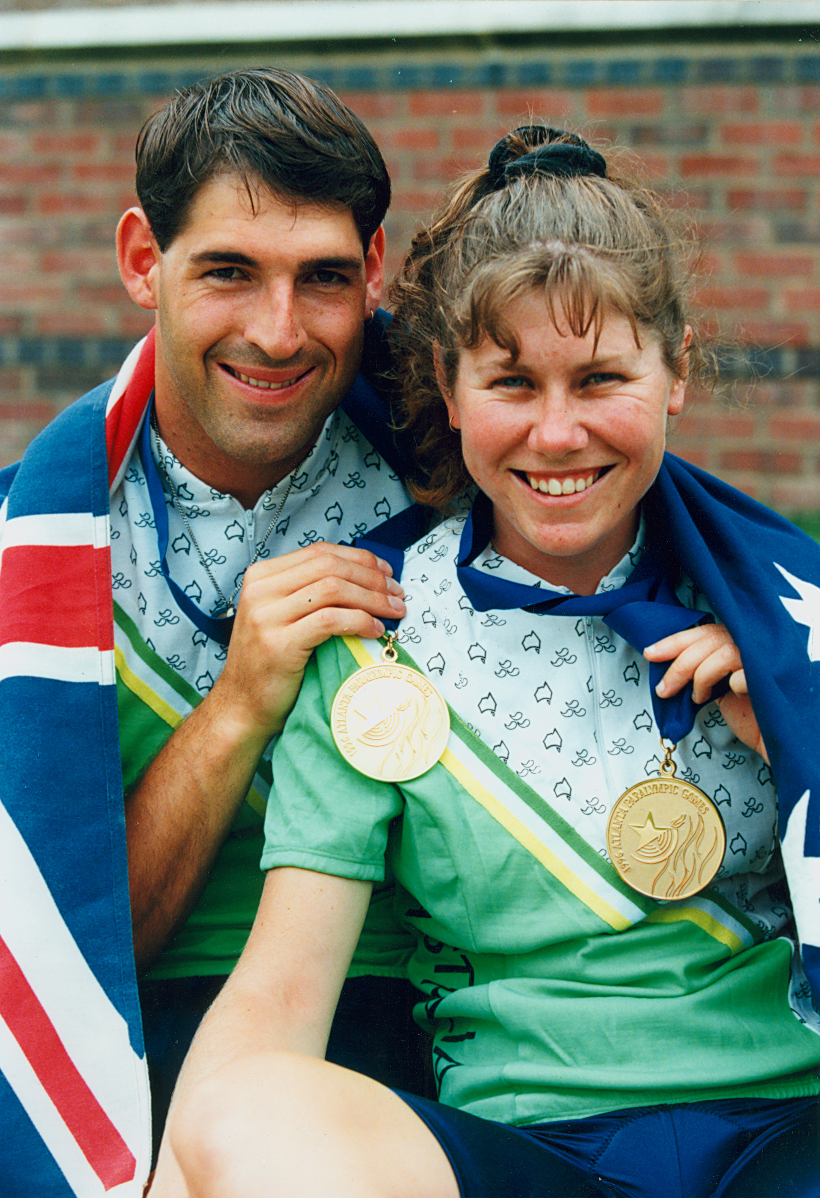 Australian mixed tandem cyclists Kieran Modra (left, vision impaired) and his wife and pilot Kerry Modra (née Golding) show the gold medal that they won in the 200 m sprint event at the 1996 Atlanta Paralympics